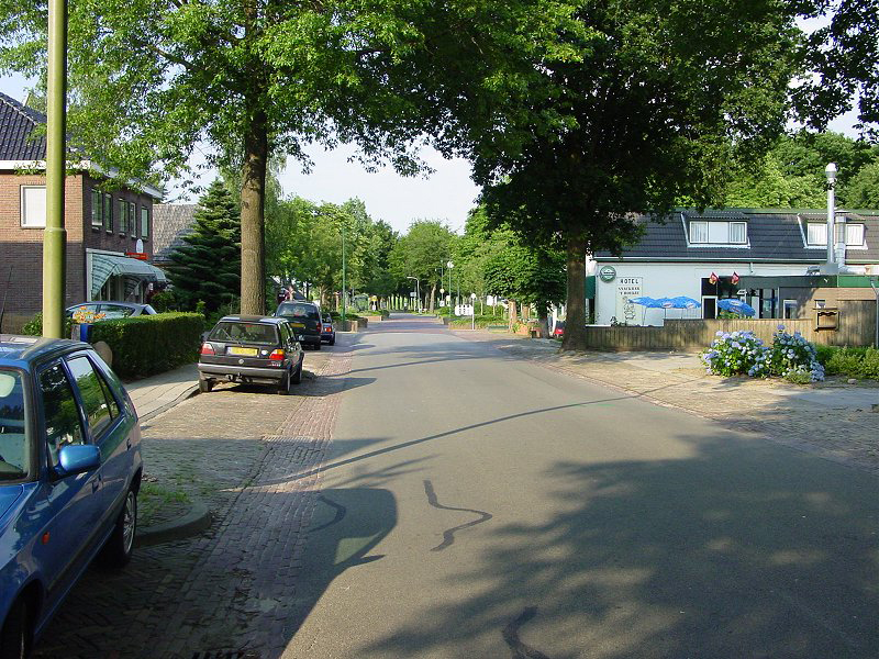 Street in Valthe, The Netherlands